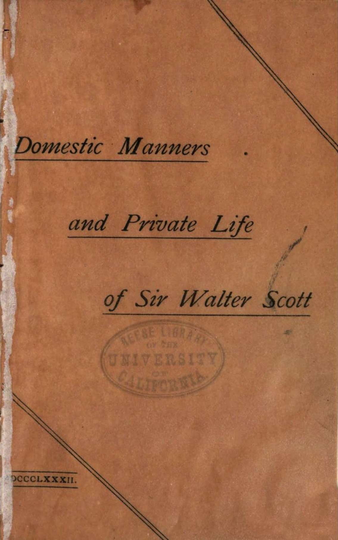 Cover of the 1882 edition of Domestic Manners and Private Life of Sir Walter Scott by James Hogg, an early unauthorised biography. The book was first published in 1834.